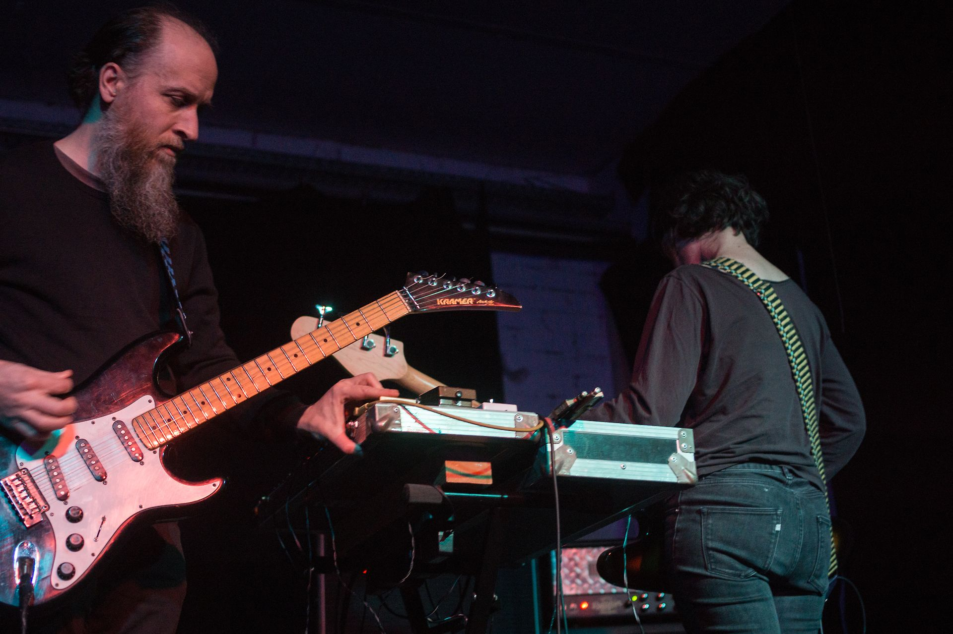 Nadja (band)